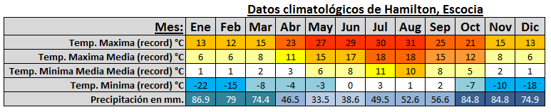 Climate data for Hamilton, Lanarkshire.